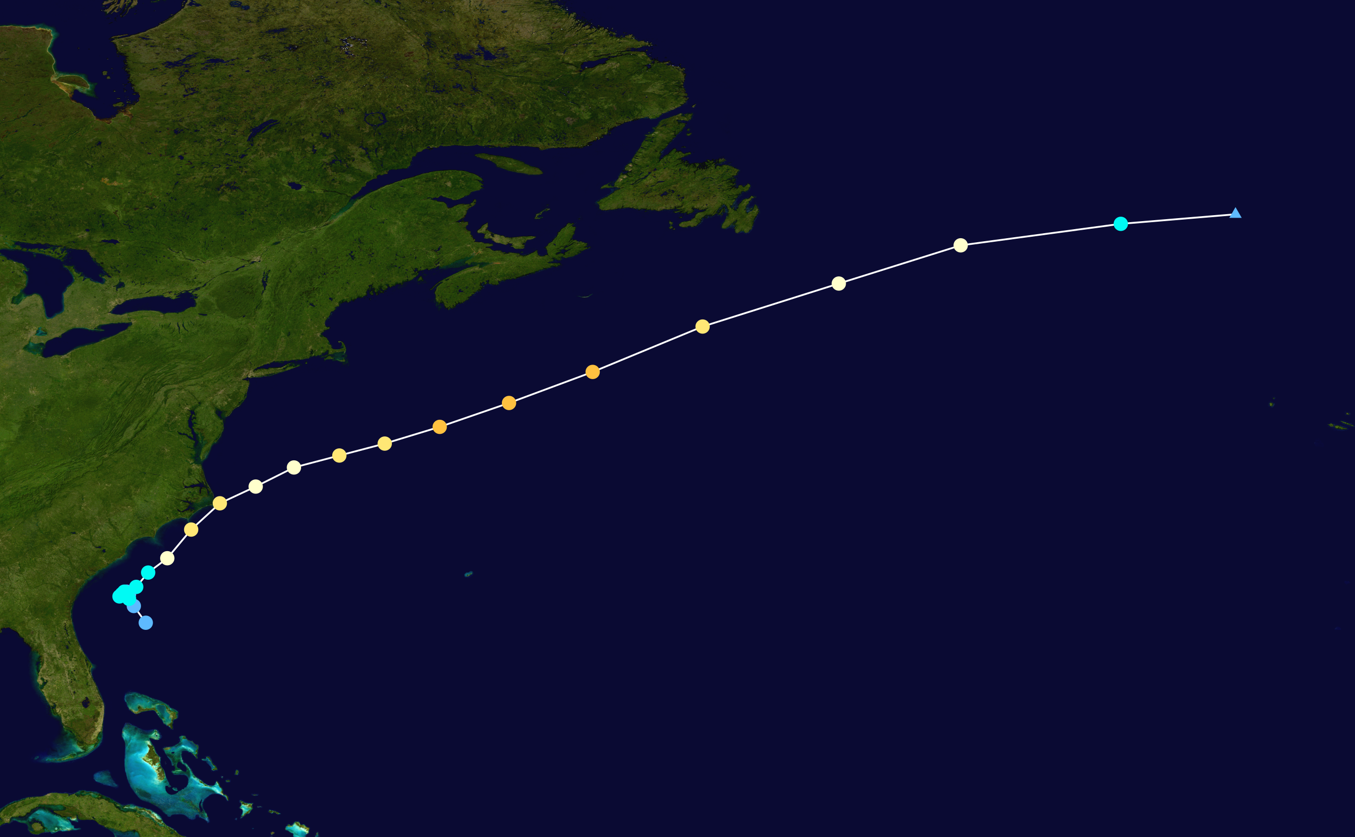 Track map of Hurricane Alex of the 2004 Atlantic hurricane season. The points show the location of the storm at 6-hour intervals. The colour represents the storm's maximum sustained wind speeds as classified in the Saffir–Simpson scale (see below), and the shape of the data points represent the nature of the storm, according to the legend below. Saffir–Simpson scale Tropical depression≤38 mph≤62 km/h Category 3111–129 mph178–208 km/h Tropical storm39–73 mph63–118 km/h Category 4130–156 mph209–251 km/h Category 174–95 mph119–153 km/h Category 5≥157 mph≥252 km/h Category 296–110 mph154–177 km/h Unknown Storm type Tropical cyclone Subtropical cyclone Extratropical cyclone / Remnant low / Tropical disturbance / Monsoon depression